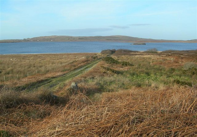 Loch Gorm Track This is one of the access points for fishermen. The barely visible island on the Loch is Eilean Mòr, on which are located the (even less visible) ruins of Loch Gorm Castle